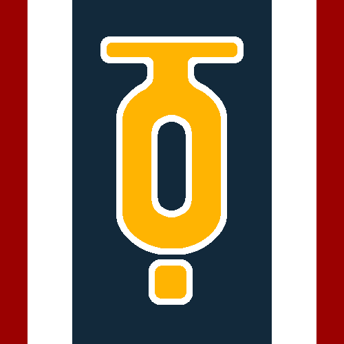 Battlestar Galactia (reimagined) Caprica Colony Flag Icon